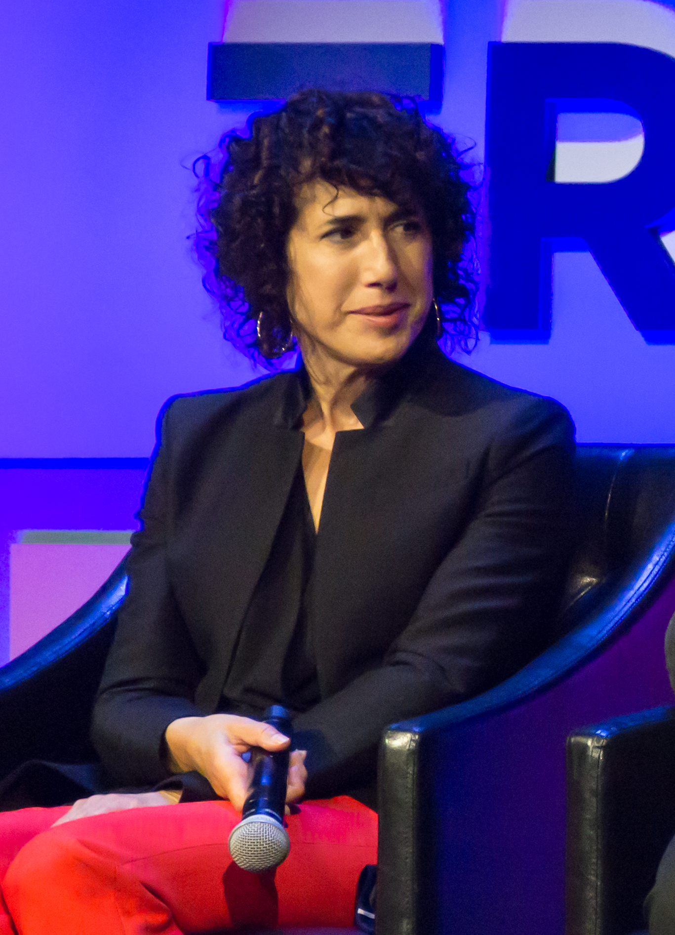 Time's Up event at the 2018 Tribeca Film Festival (Tribeca Talks: Time's Up). A series of talks/performances about Time's Up/sexual harassment. Jennifer Fox during the A New Direction panel.